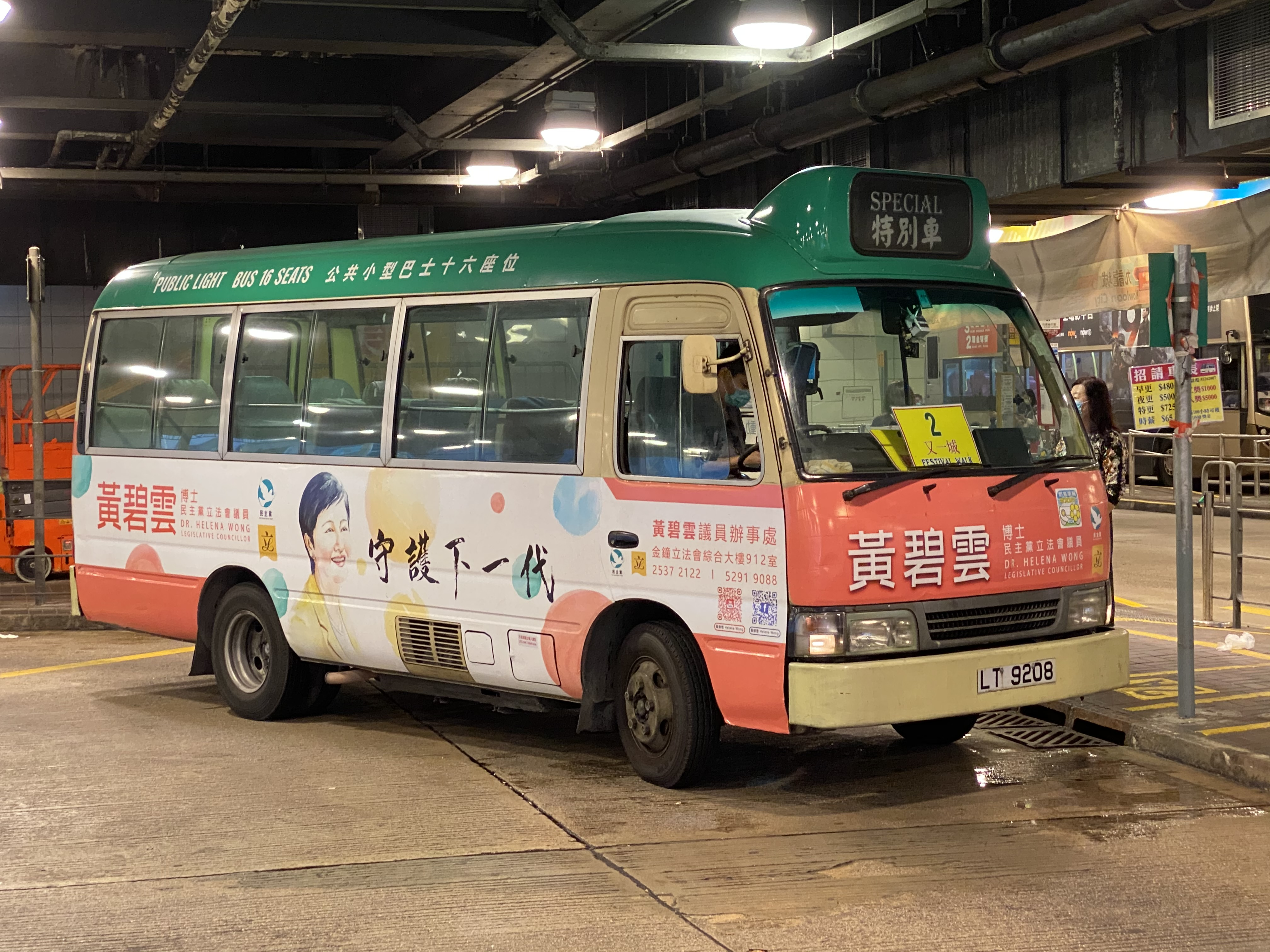 中文（香港）: This photo is taken in Whampoa.